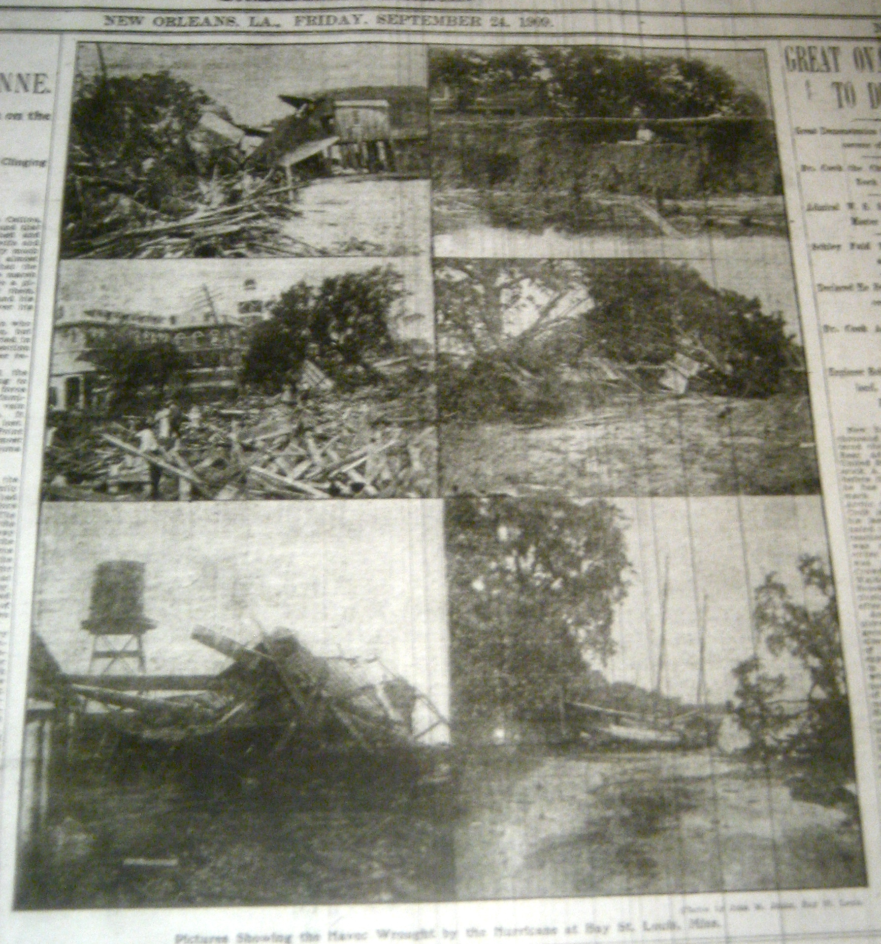 Aftermath of the September 1909 hurricane. 6 photos of damage in Bay Saint Louis, Mississippi on front page of Daily Picayune.